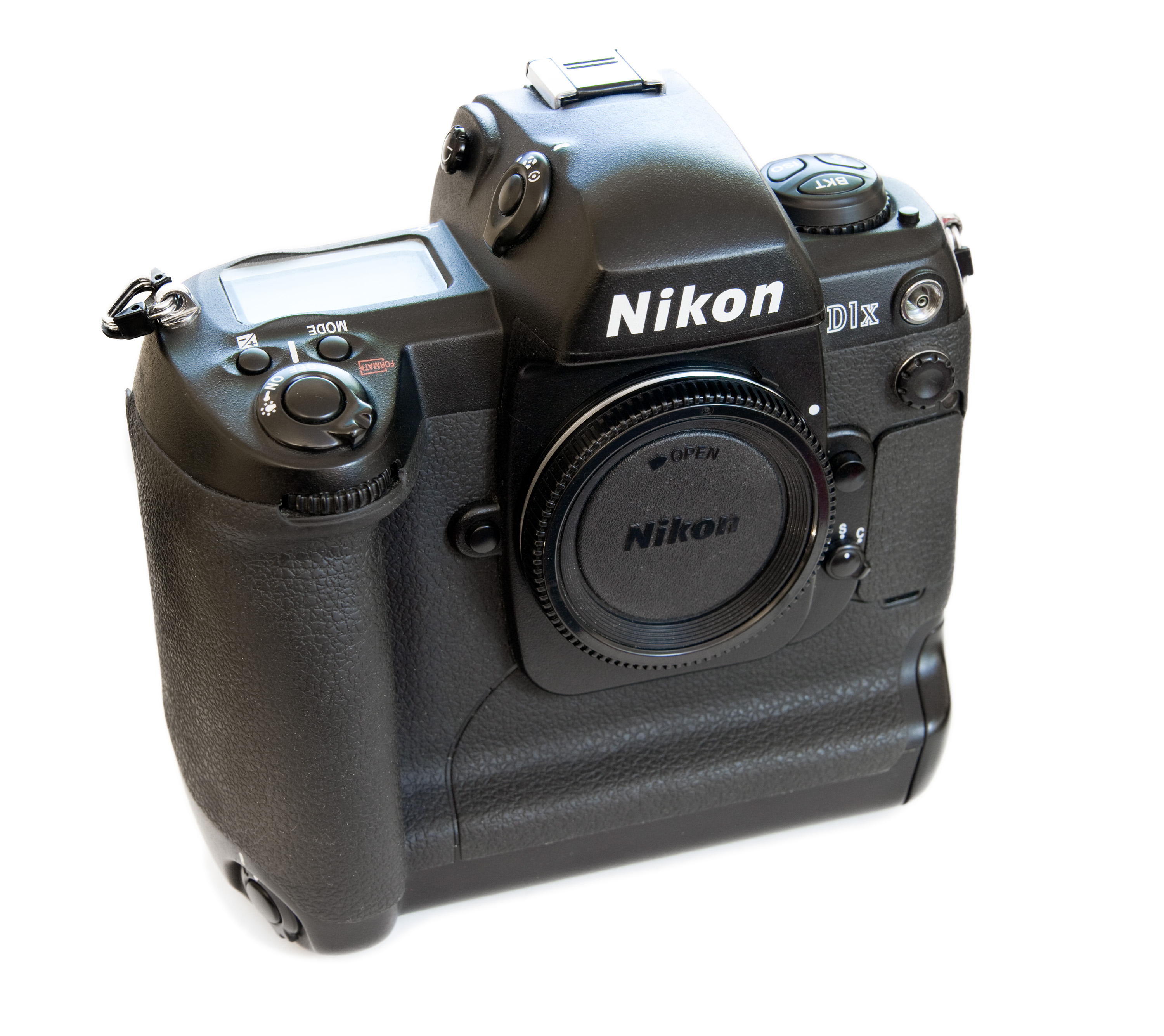 Nikon D1x #5124276